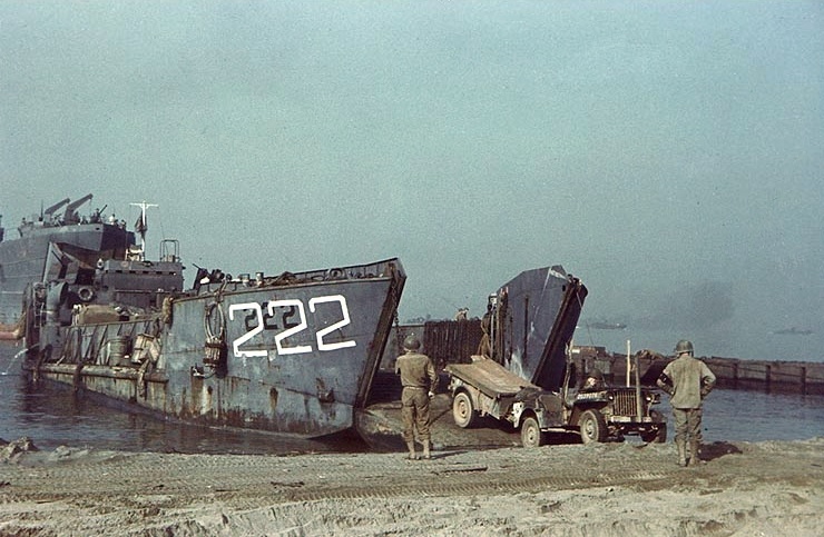 The U.S. Navy tank landing craft LCT-222 lands a U.S. Army Jeep on an Italian beach. LST-1 is in the background, at left. The Jeep has the serial Nr. 2039078. This view may have been taken during the Salerno landings, circa September 1943.